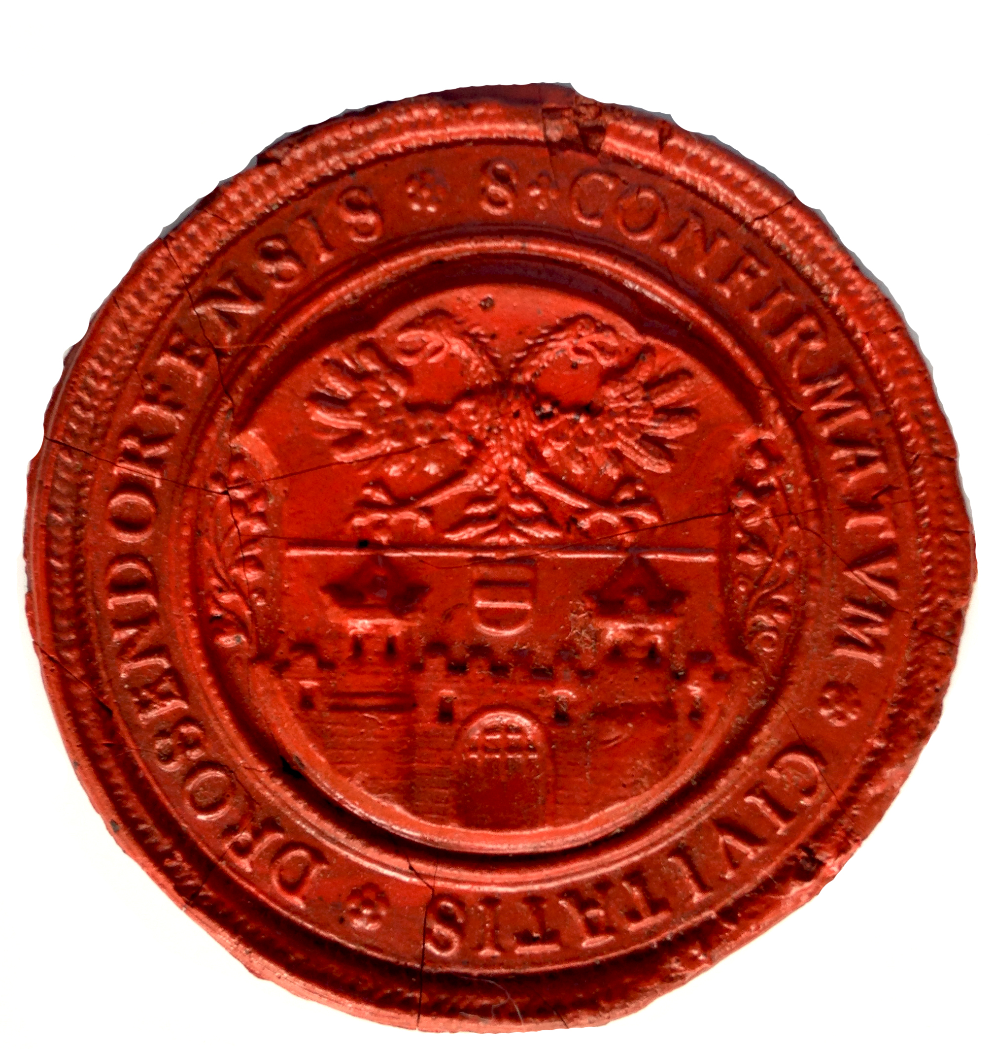 Confirmation of the city status ~ 1600 law armorial seals